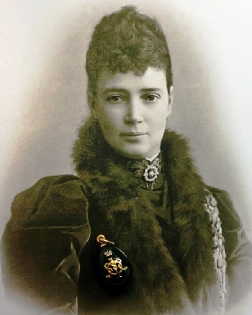 Dowager Empress Maria Feodorovna of Russia